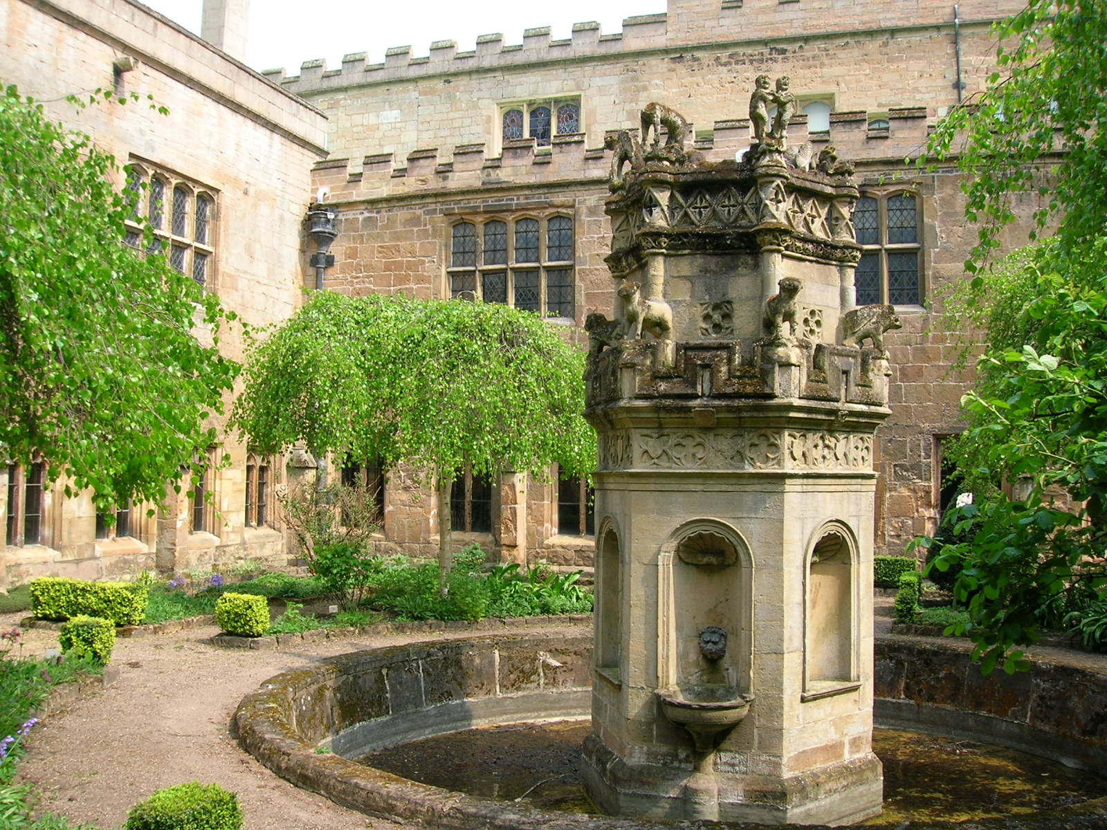 Newstead Abbey, cloister garth